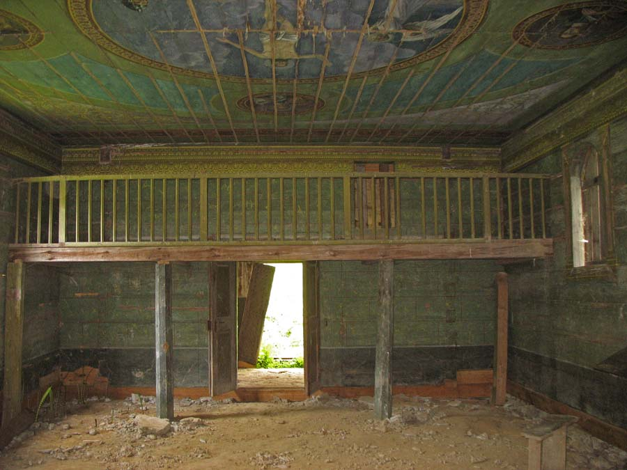 Chyrzynka (Poland), Greek Catholic church